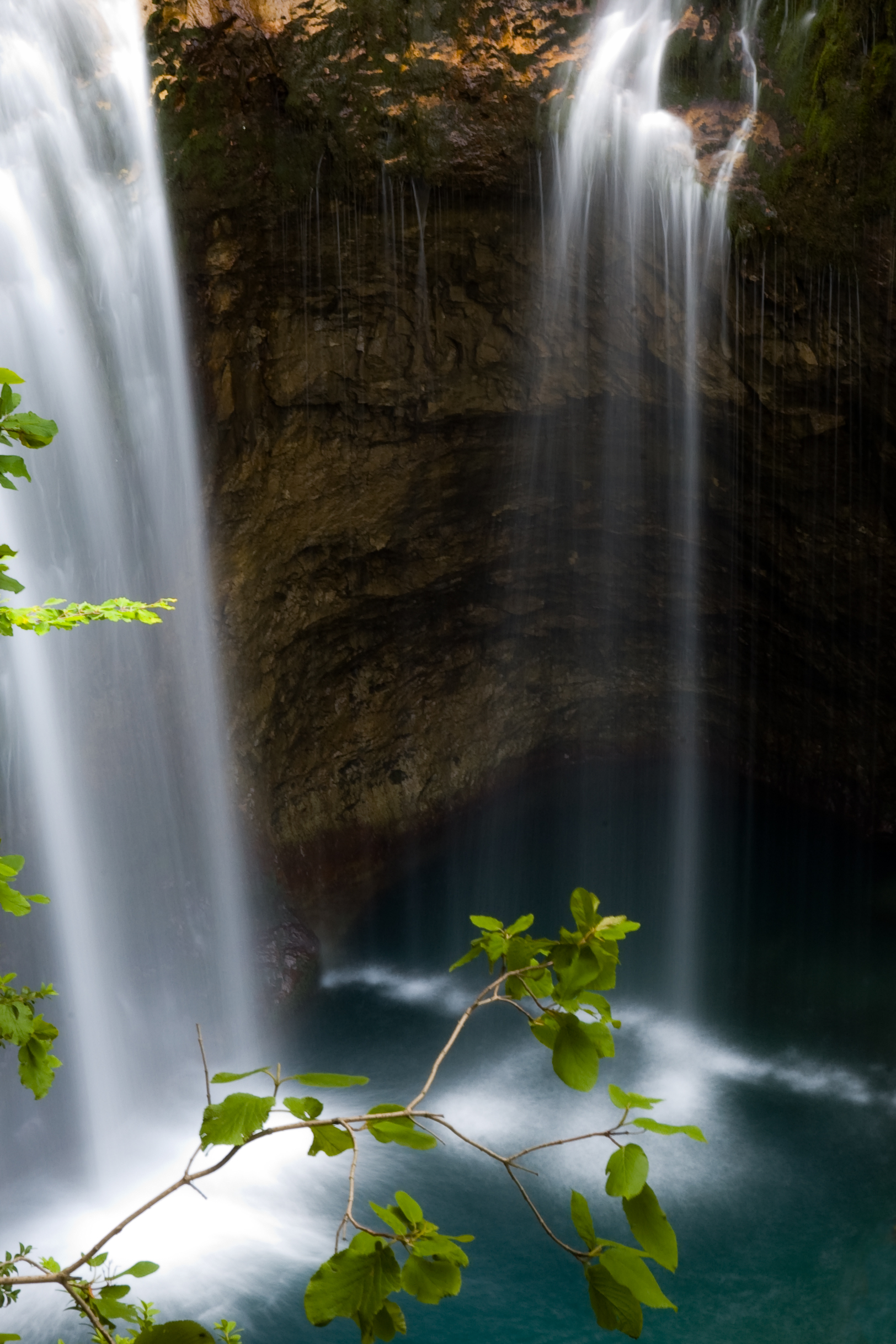 The Ordesa Valley is a glacial valley in the Spanish Pyrenees which forms part of the Ordesa y Monte Perdido National Park. The valley's east–west orientation, unusual in the Pyrenees, opens it to influence from the Atlantic Ocean and gives it a moderate climate. It has one of Europe's largest populations of the Pyrenean Chamois and is well known for its waterfalls and wildlife. Monte Perdido (3,355 m) is the third highest mountain in the Pyrenees and together with Cilindro de Marboré (3,328 m) and Soum de Ramond (3,263 m) can be seen at the north-east end of the valley. The name Monte Perdido (lost mountain) was given because the peak could not be seen from the French side of the range.